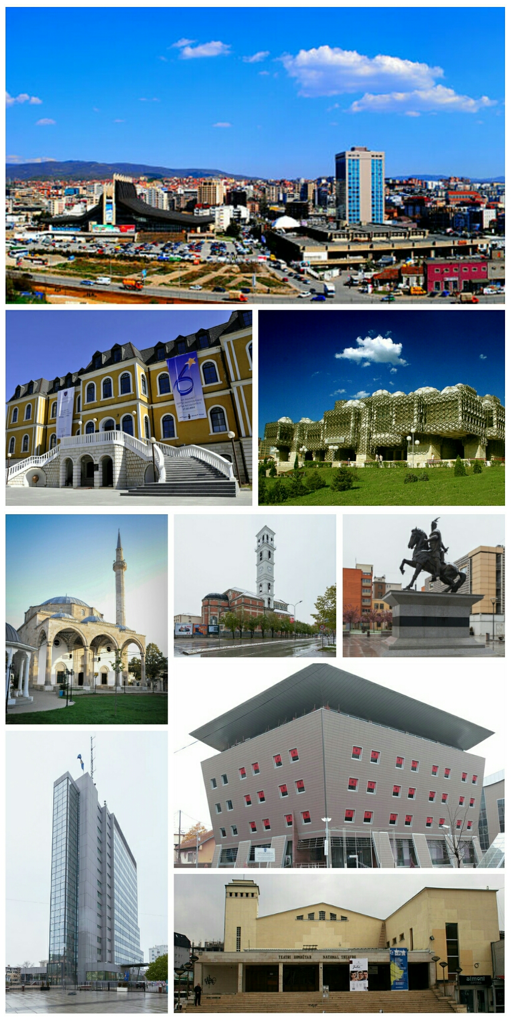 Priština- photomontage (Panorama of city, National Museum of Kosovo, National Library of Kosovo, The Imperial Mosque, The Catholic Cathedral of Blessed Mother Teresa, Skanderbeg Monument, The government of Kosovo building, Academy of Sciences and Arts, National Theater of Kosovo)